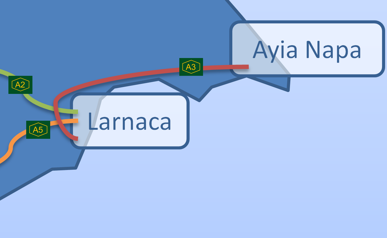 A3 Motorway Cyprus Map, created by me TomasNY| 10:41, 17 August 2007 (UTC)